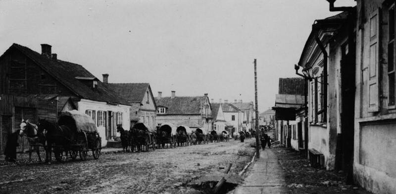 Slonim 1916 zur Erinnerung Shr J: Meyn Lt. d. R. Information added by Wikimedia users.